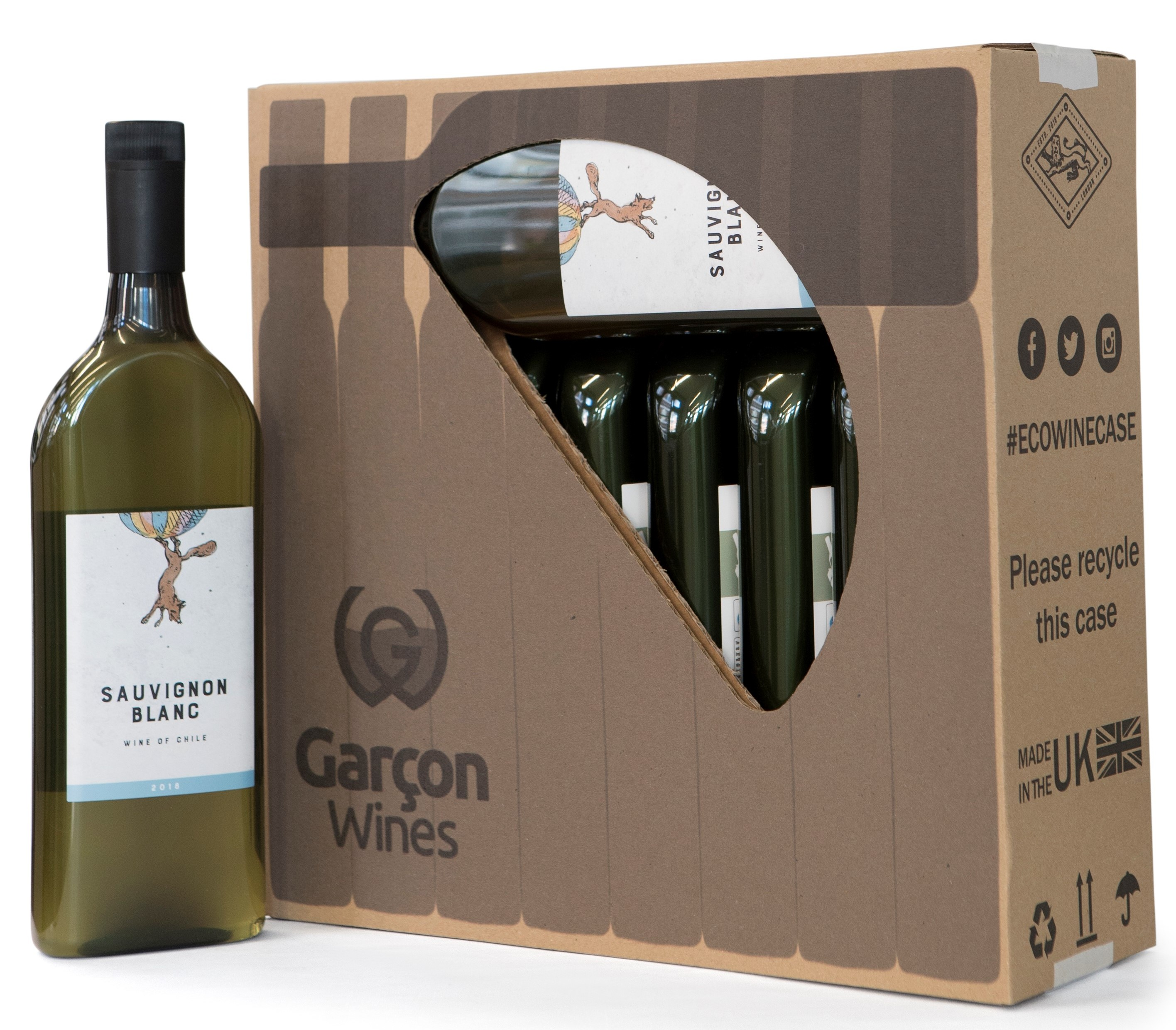 This image shows 10 flat Garçon Wines bottles which fit in a case that would otherwise hold just 4 round, glass bottles of the same volume.